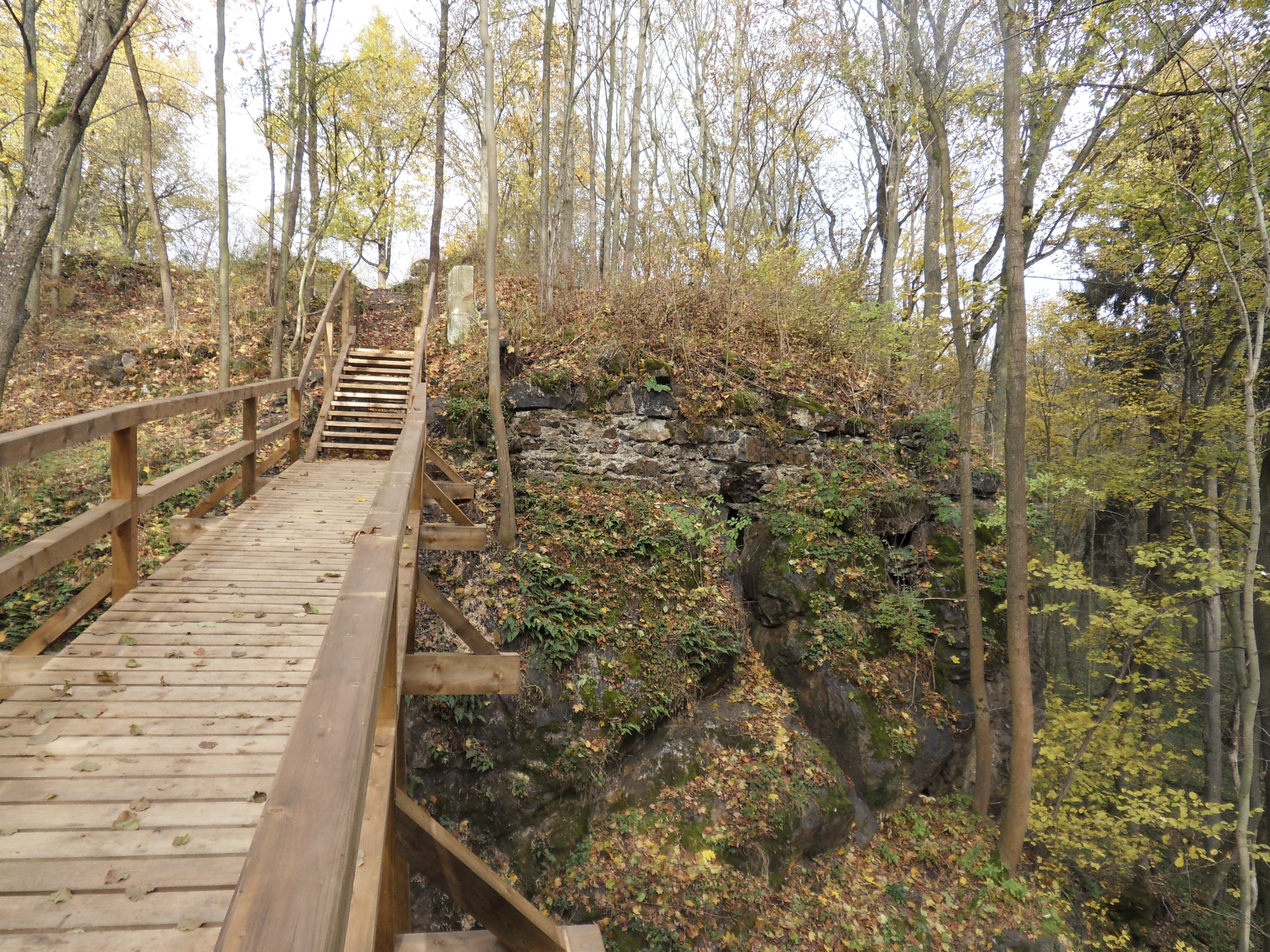 Castle Lopata, Plzeň-South District, Czech Republic